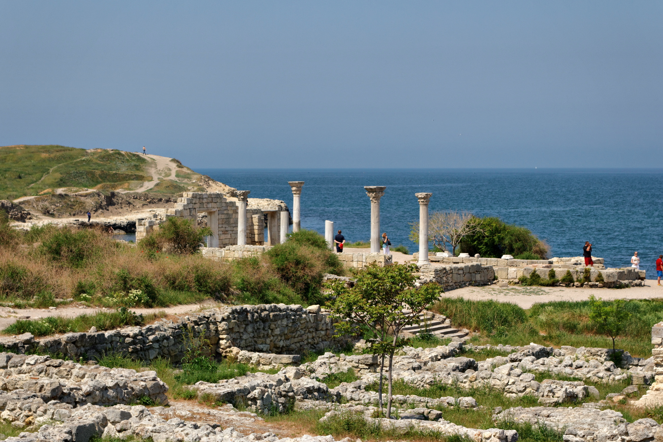 Sevastopol. Chersonesus. Basilica of 1935